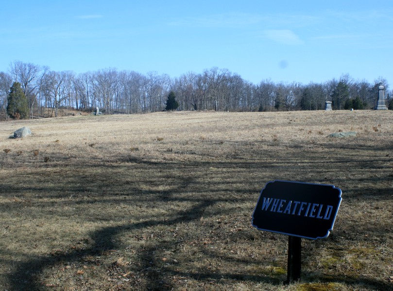 Gettysburg battlefield, Wheatfield